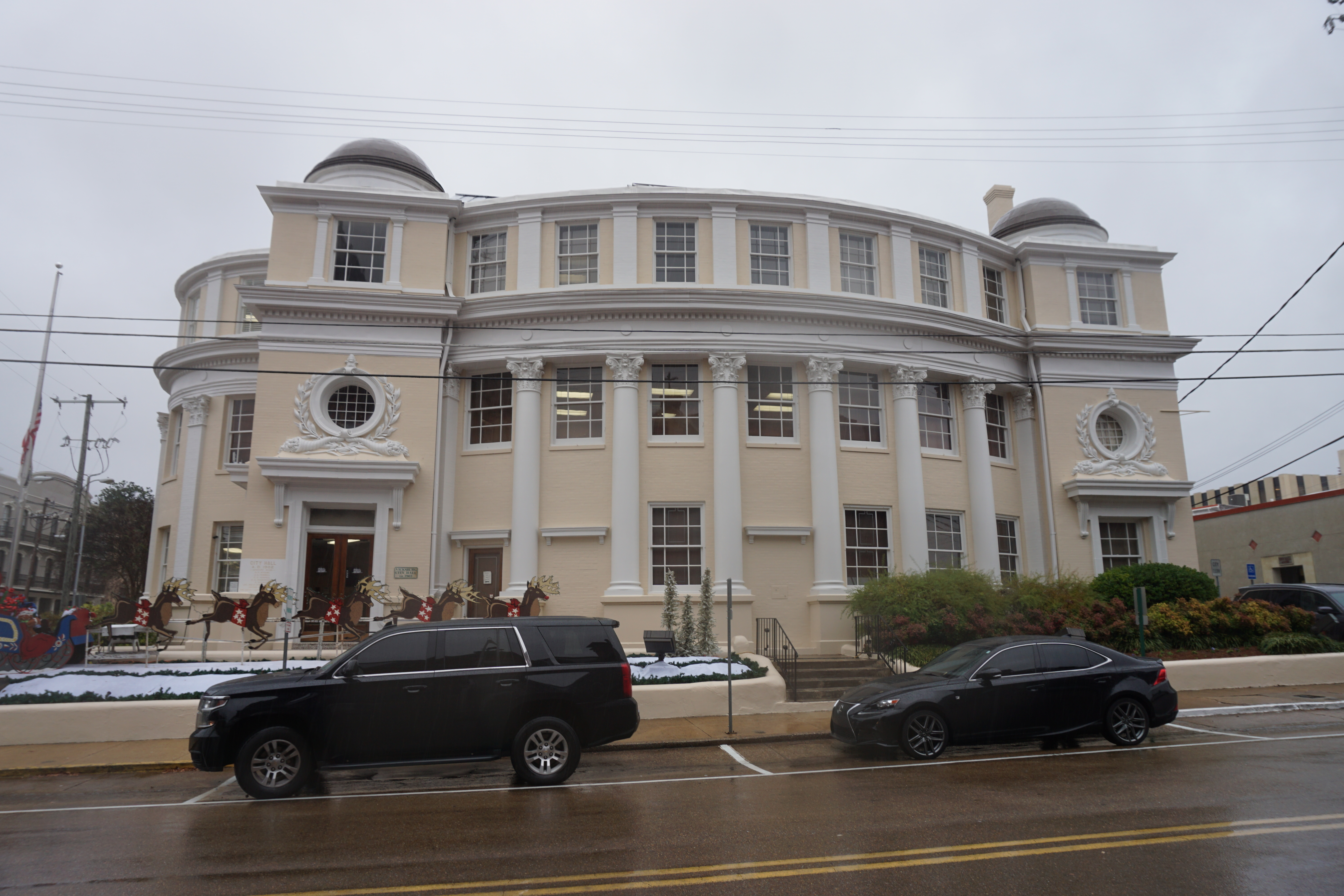 Vicksburg City Hall in Vicksburg, Mississippi (United States).